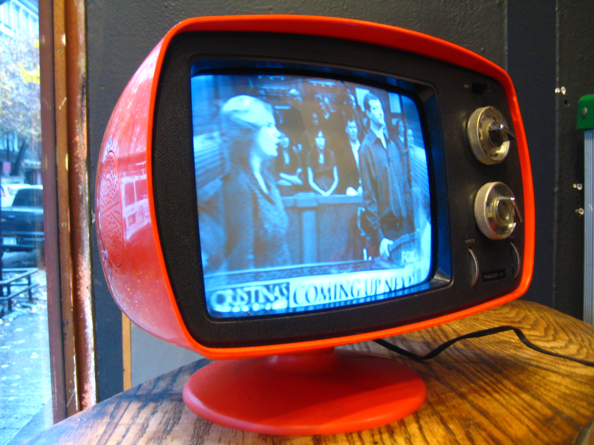 Philco-Ford Orange Retro TV (1970s) Remember when we met George Jetson on our little black & whites? It's back to the future we go with this vintage television that still works! Black and white with decent reception (currently visible in 17th St. right window) Vintage wiring Some scratches to plastic, especially top Jane, his wife.... All proceeds help us continue the fight against HIV/AIDS and homelessness